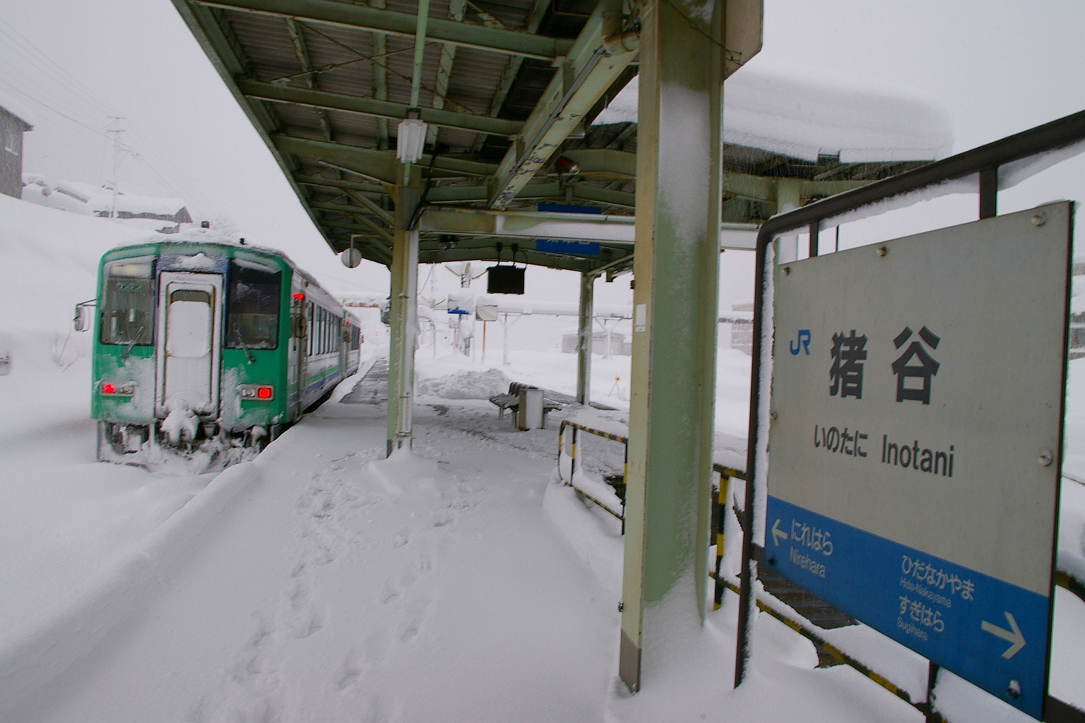 Inotani Station platform